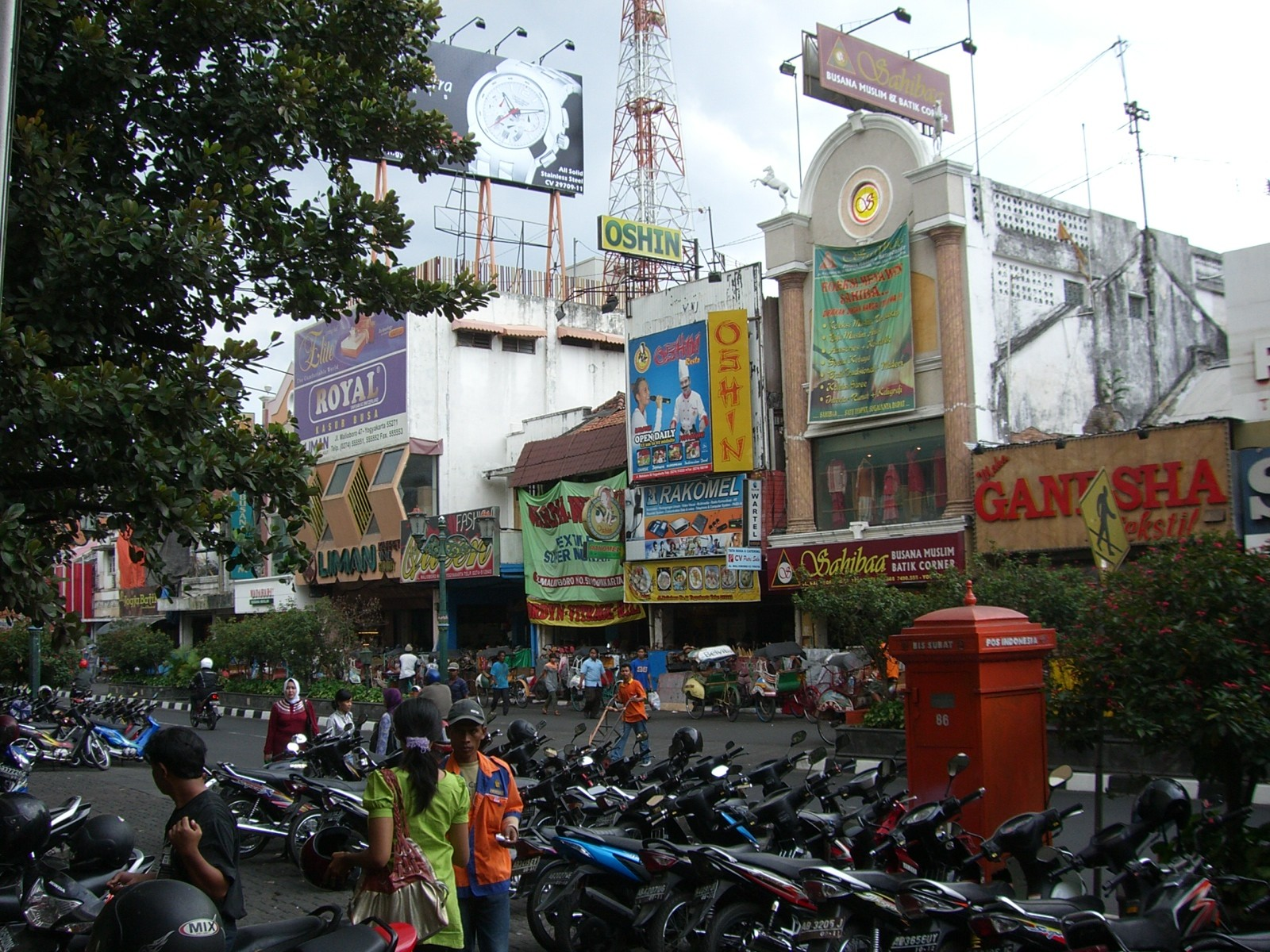 The street of Malioboro in Yogyakarta City, Indonesia